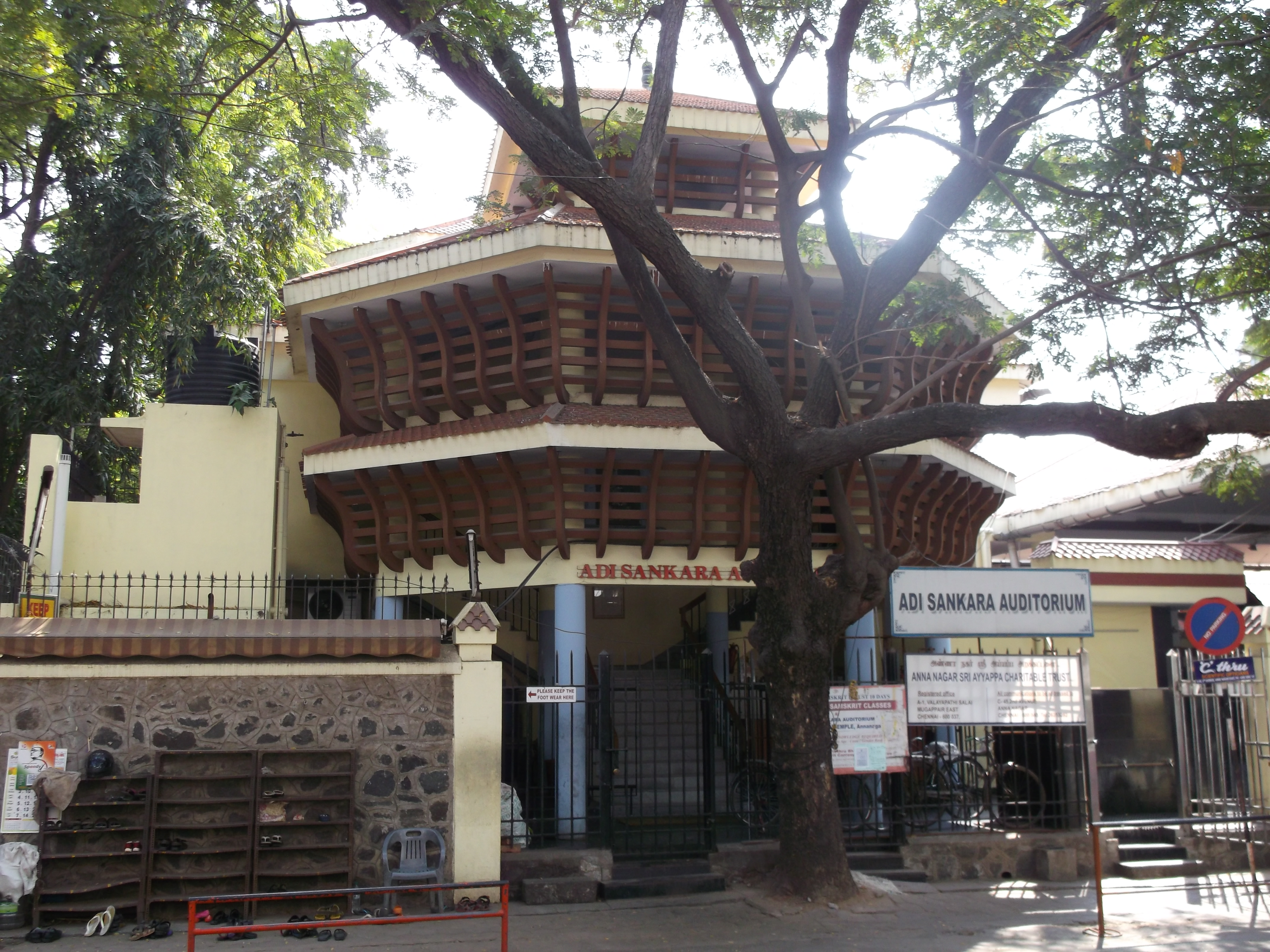 The Adhi Shankara Auditorium at the Anna Nagar Ayyappan Koil, taken on 22 February 2015 at around 9:30 am.